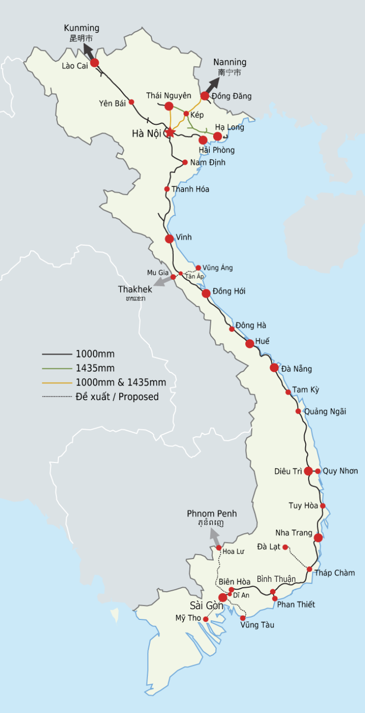 Map of the Vietnamese railway network, including existing and proposed lines. PNG Version.